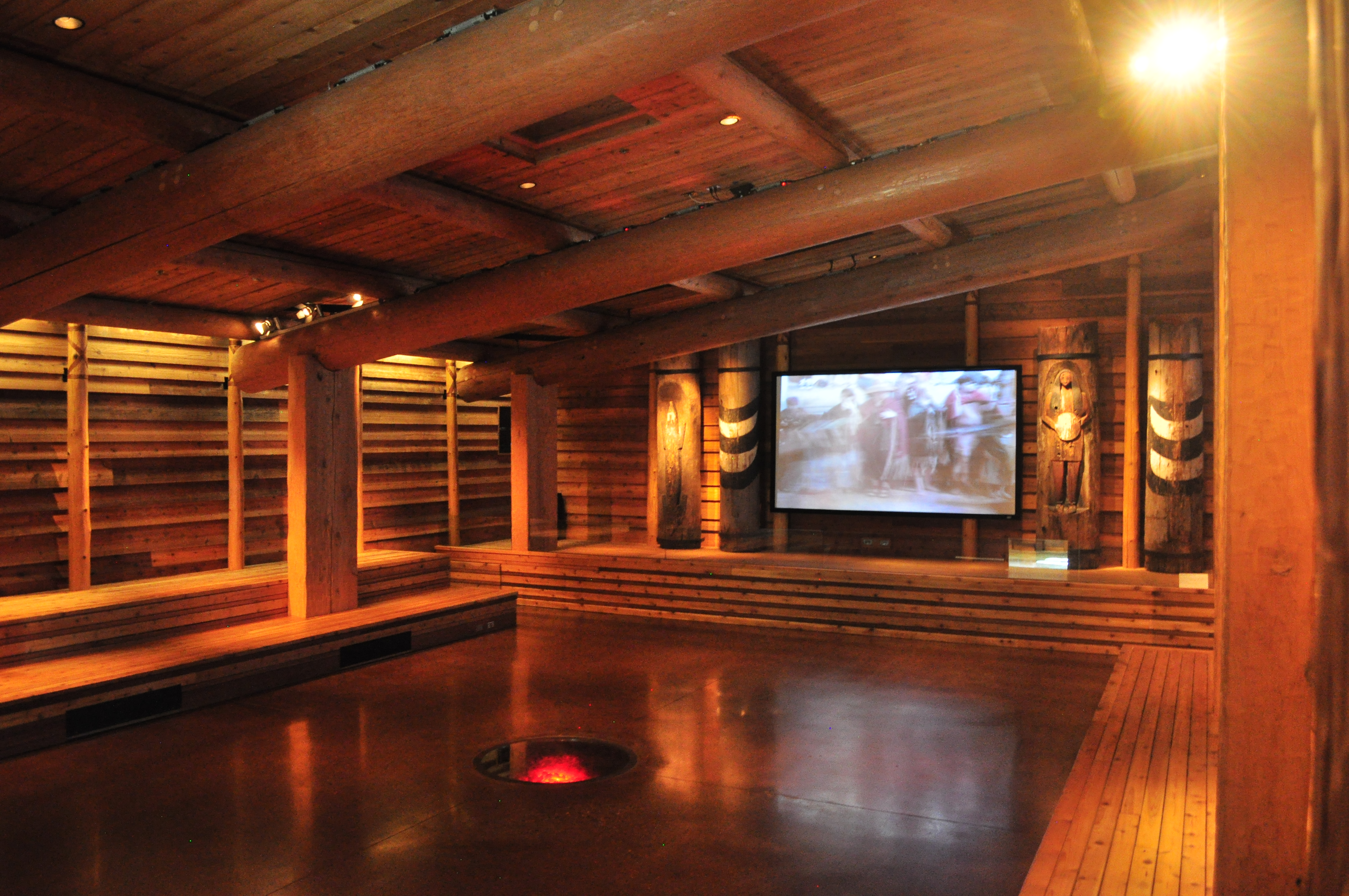 One room of the Tulalip Tribes Hibulb Cultural Center, Tulalip, Washington is modeled closely on a traditional longhouse.